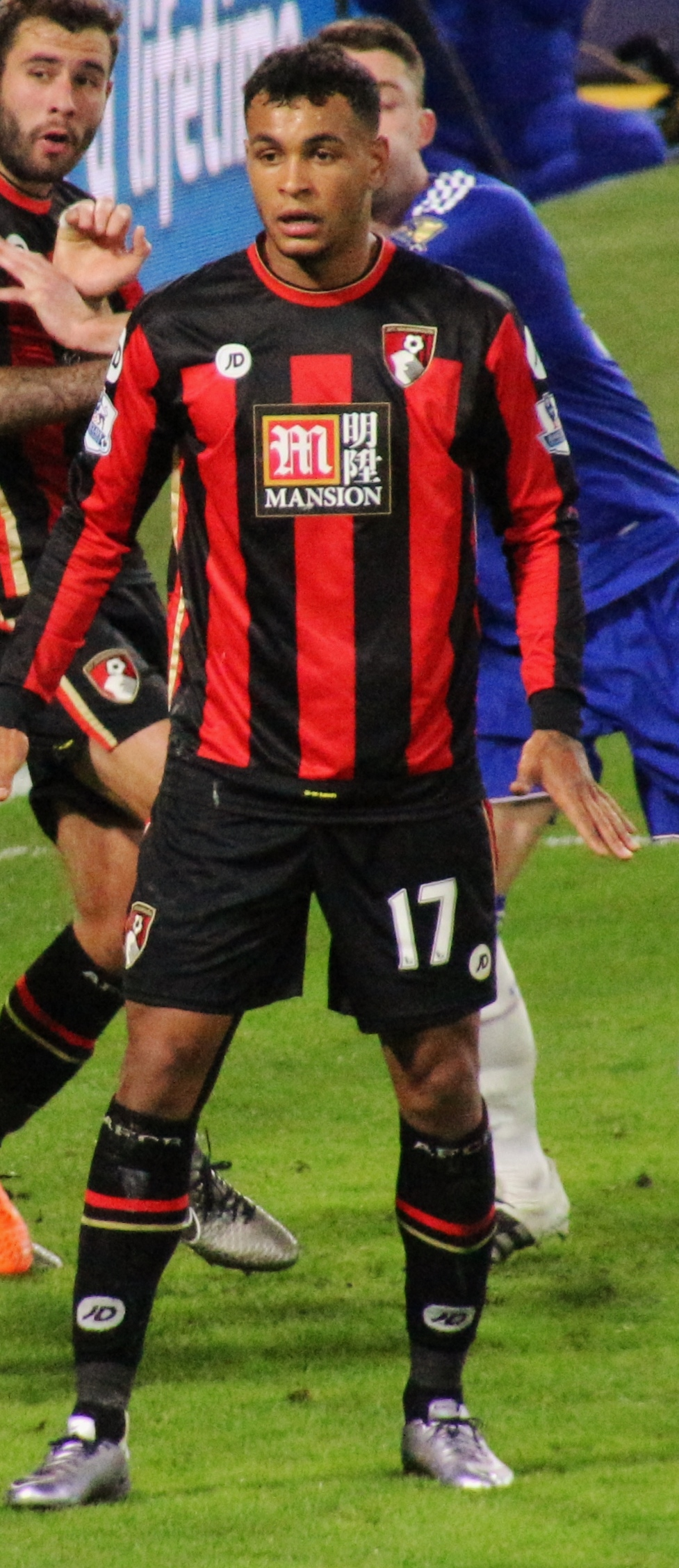 Joshua King